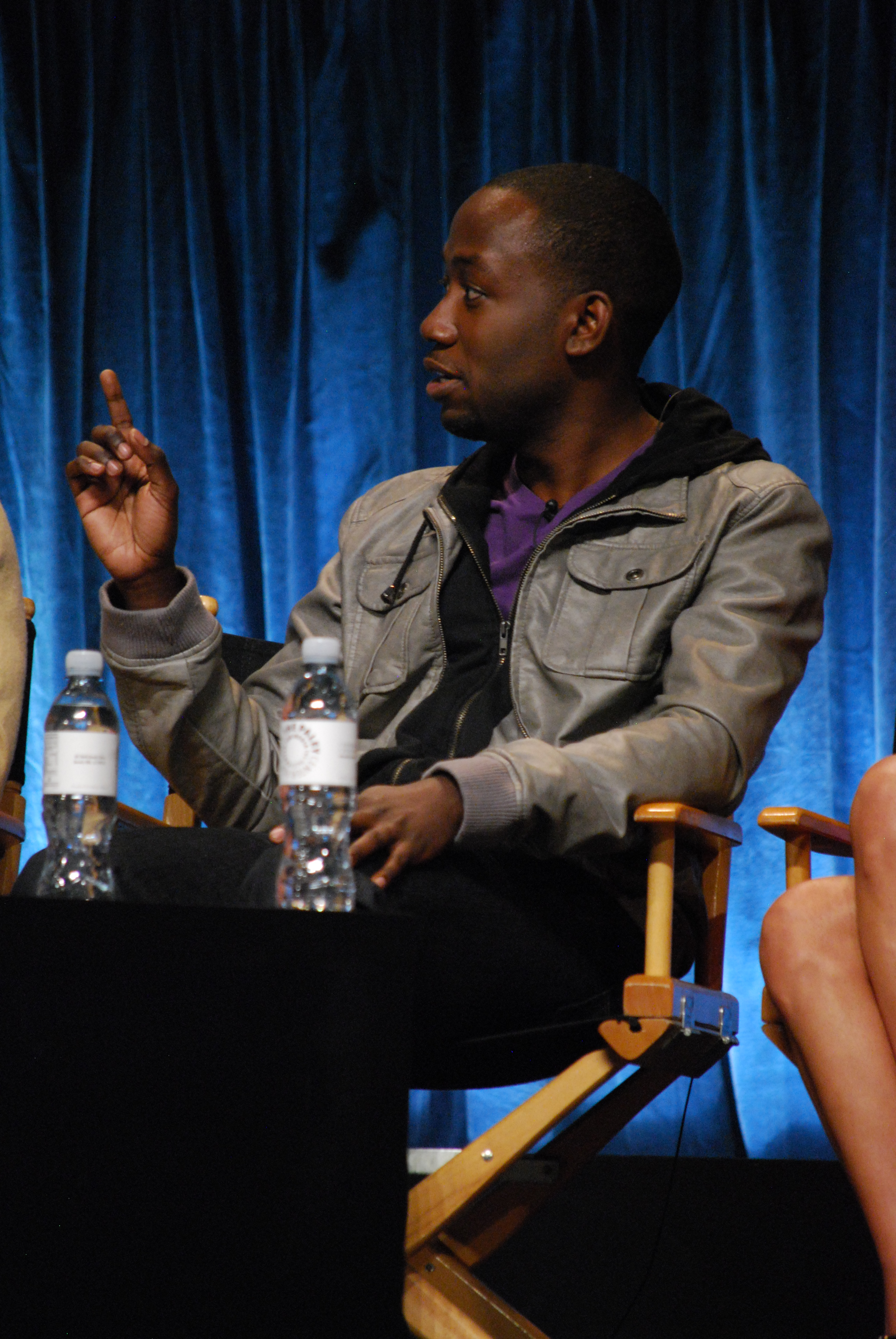 Lamorne Morris at Paleyfest 2012: New Girl